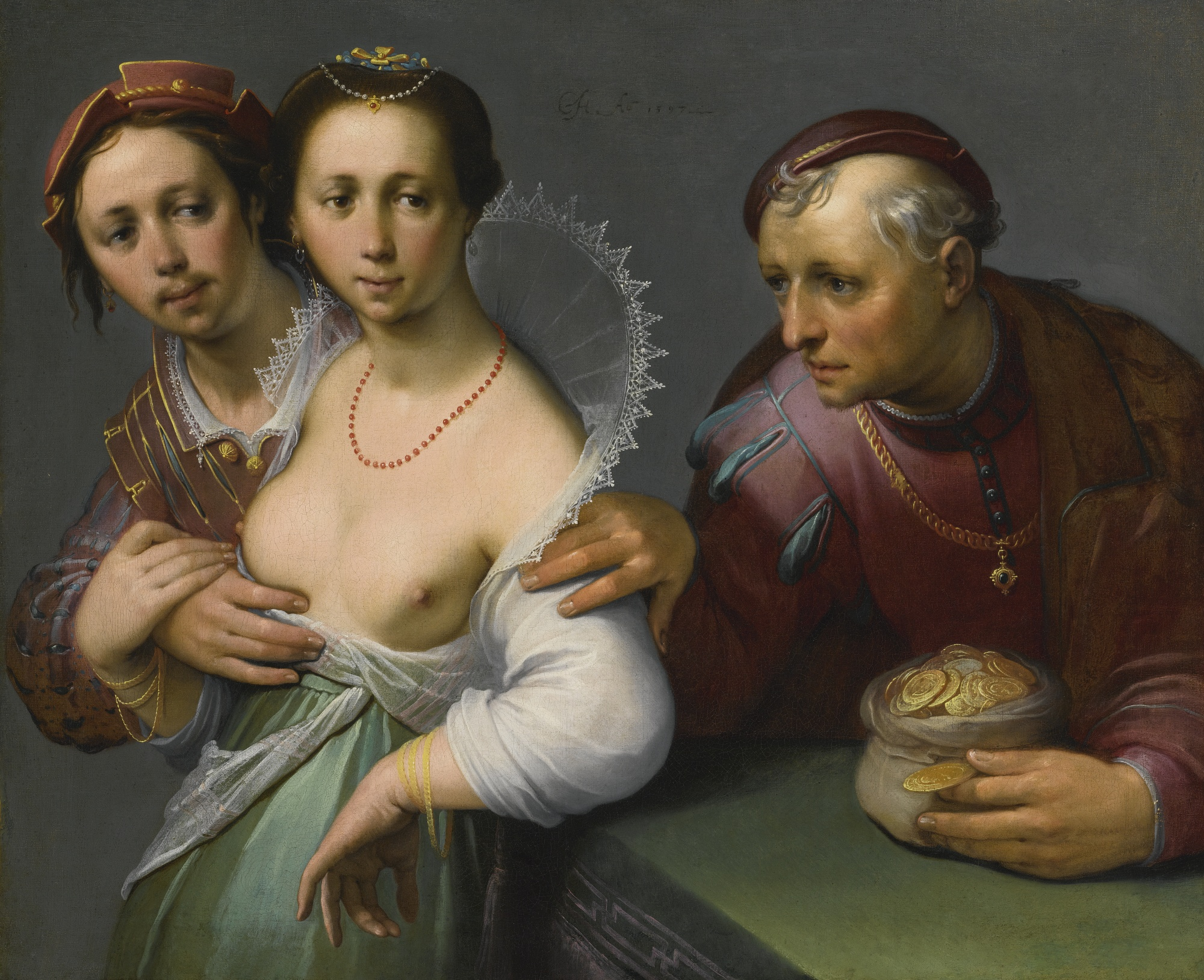 the Choice between Young and Old